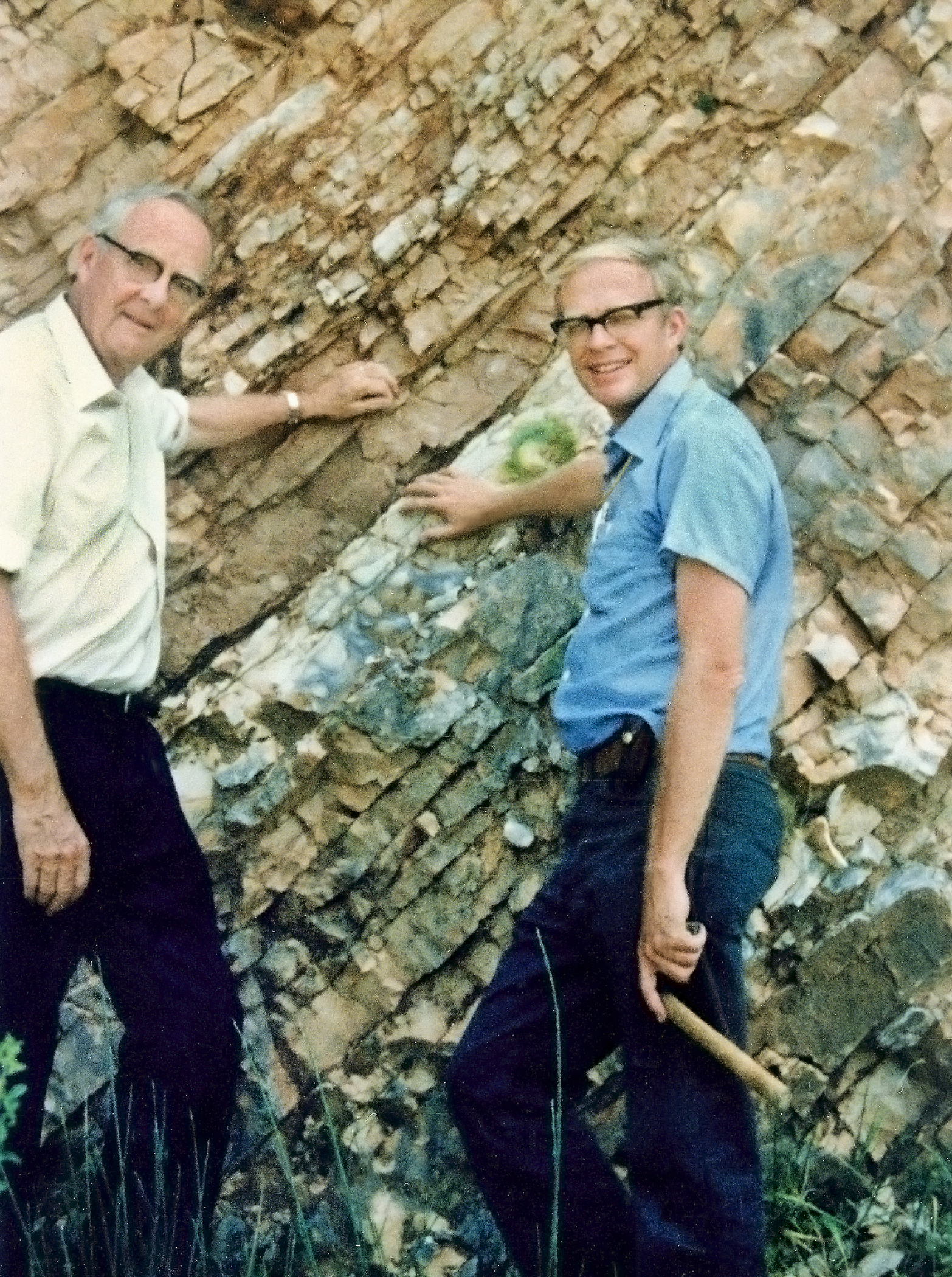 Luis Walter Alvarez (left) and his son Walter Alvarez (right) at the K-T Boundary in Bottaccione Gorge, near Gubbio, Italy